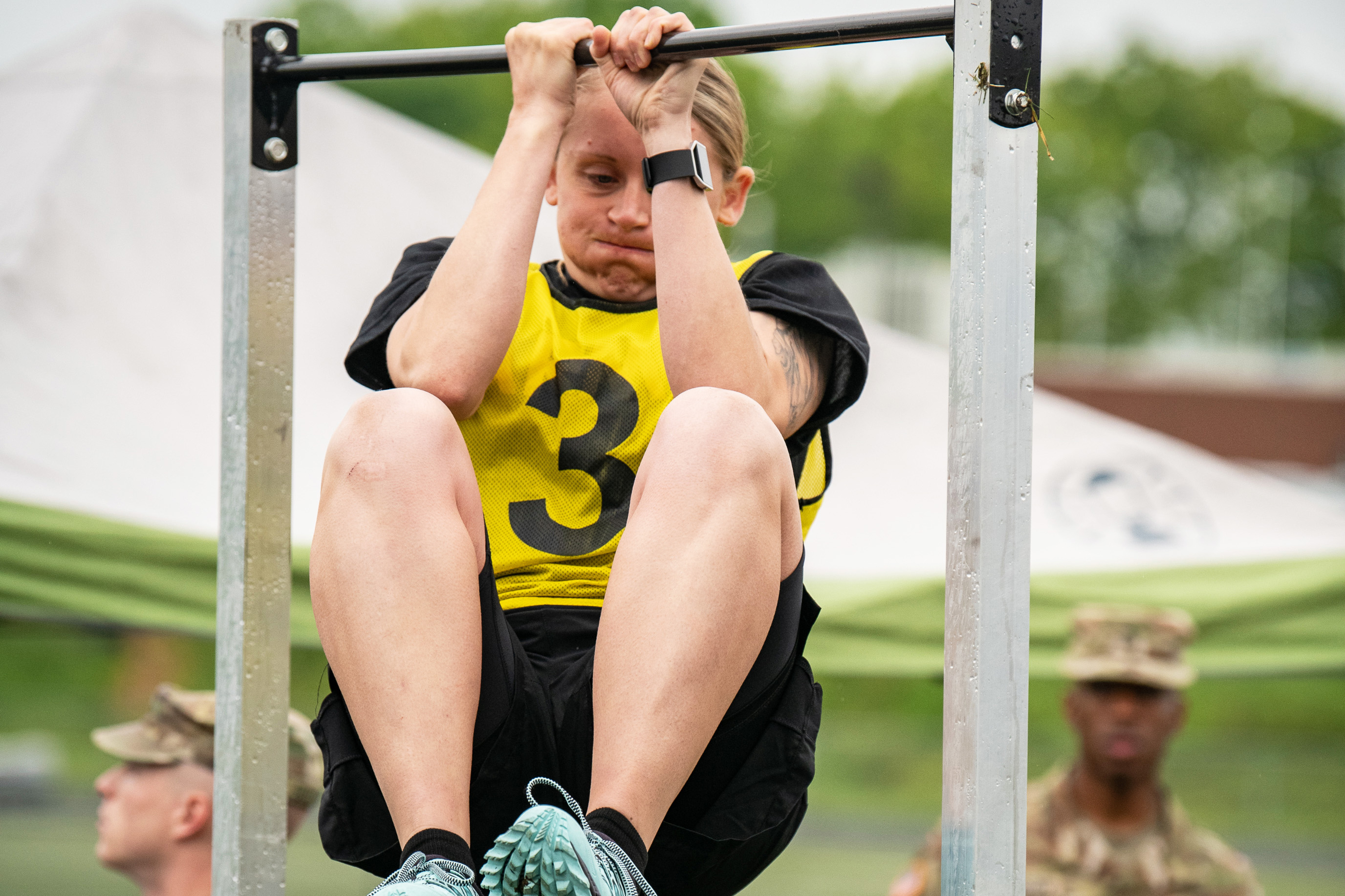 Staff Sgt. Cassandra Black, 70th Regional Training Institute, Maryland National Guard, participates in the leg-tuck portion of the Army Combat Fitness Test (AFCT) May 17, 2019, during the Region II Best Warrior Competition at Camp Dawson, West Virginia. This four-day event is designed to measure the physical abilities, leadership skills, teamwork and critical thinking of Soldiers from the West Virginia, District of Columbia, Pennsylvania, Delaware, Maryland and Virginia Army National Guards while completing basic and advanced warrior tasks to crown the region’s best warrior. (U.S. Army National Guard photo by Bo Wriston)